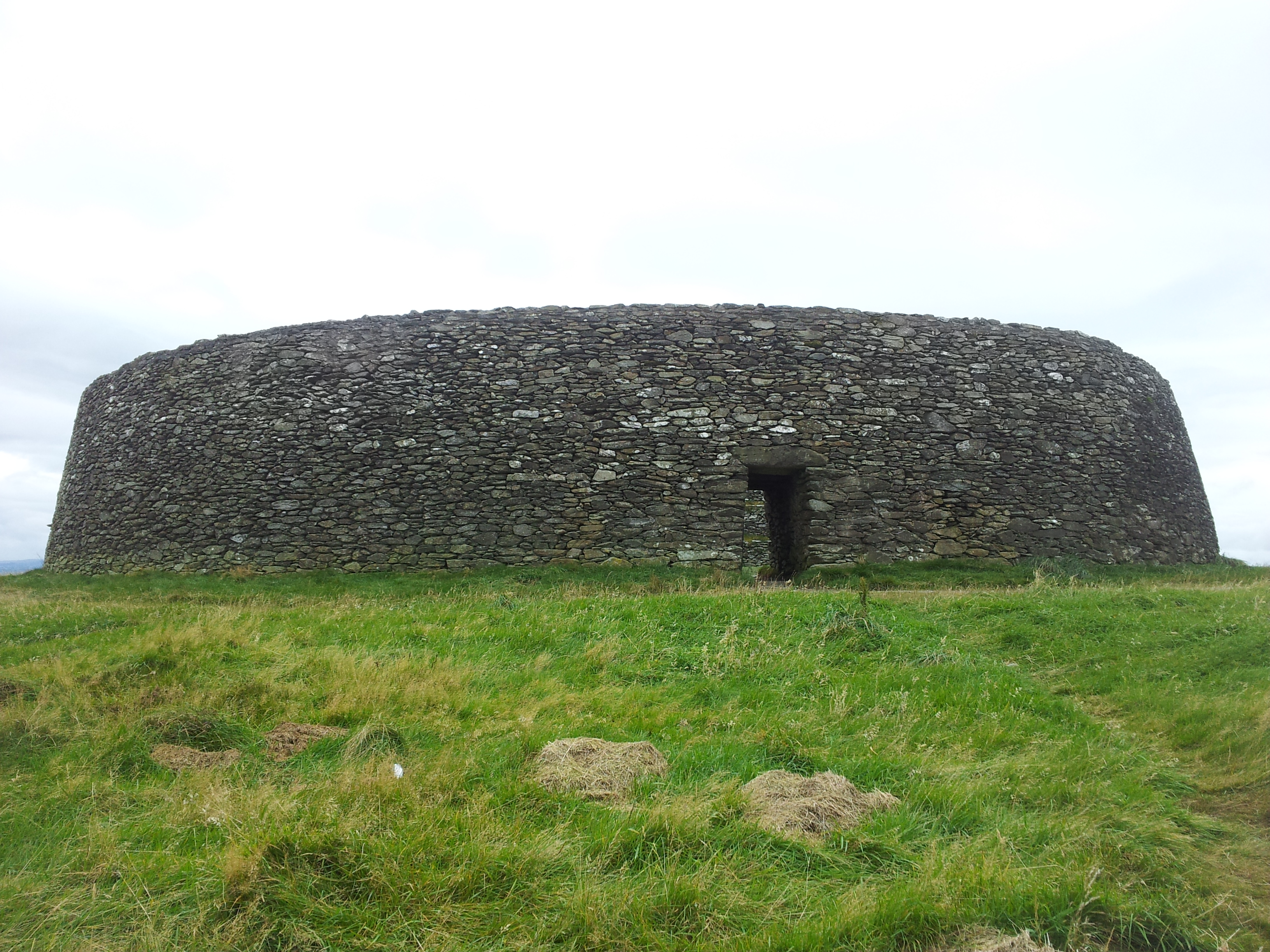 Grianan of Aileach